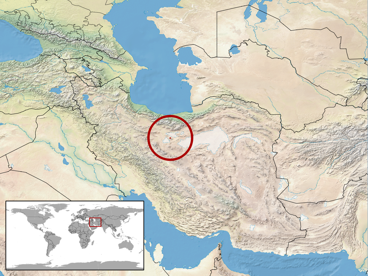 geographic distribution of Ophiomorus nuchalis